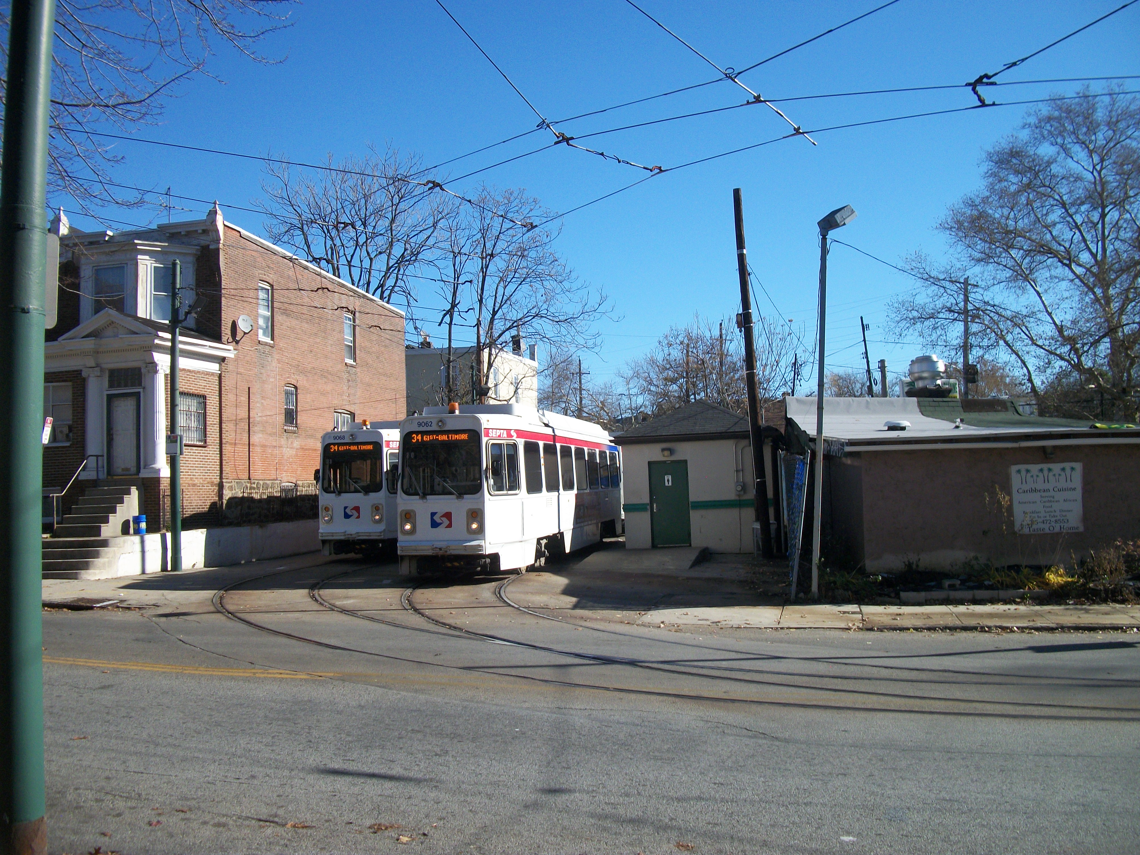 A pair of Kawasaki LRV 100 trolley cars serving SEPTA Route 34 at the Angora Loop on the northeast corner of 61st Street and Baltimore Pike in the Angora section of West Philadelphia, Pennsylvania.